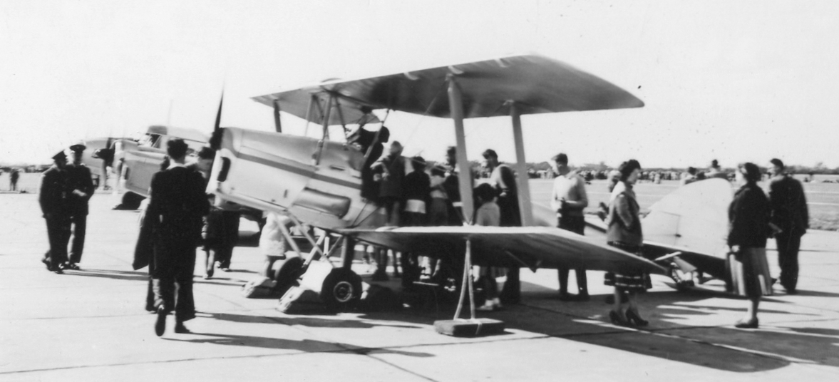 Tiger Moth, sometime in late 50s in East Anglia